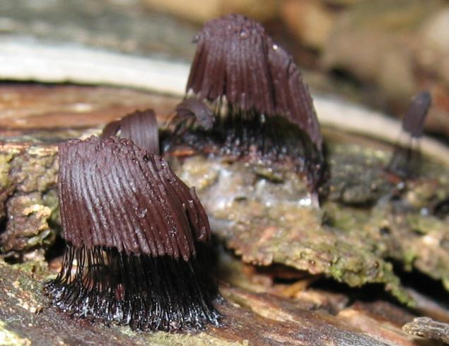 A slime mold: Stemonitis fusca. Photographed on the Dickey/Welsh Mountain Trail in New Hampshire, USA on 2002-07-28 by Aaron Sherman (uploader).